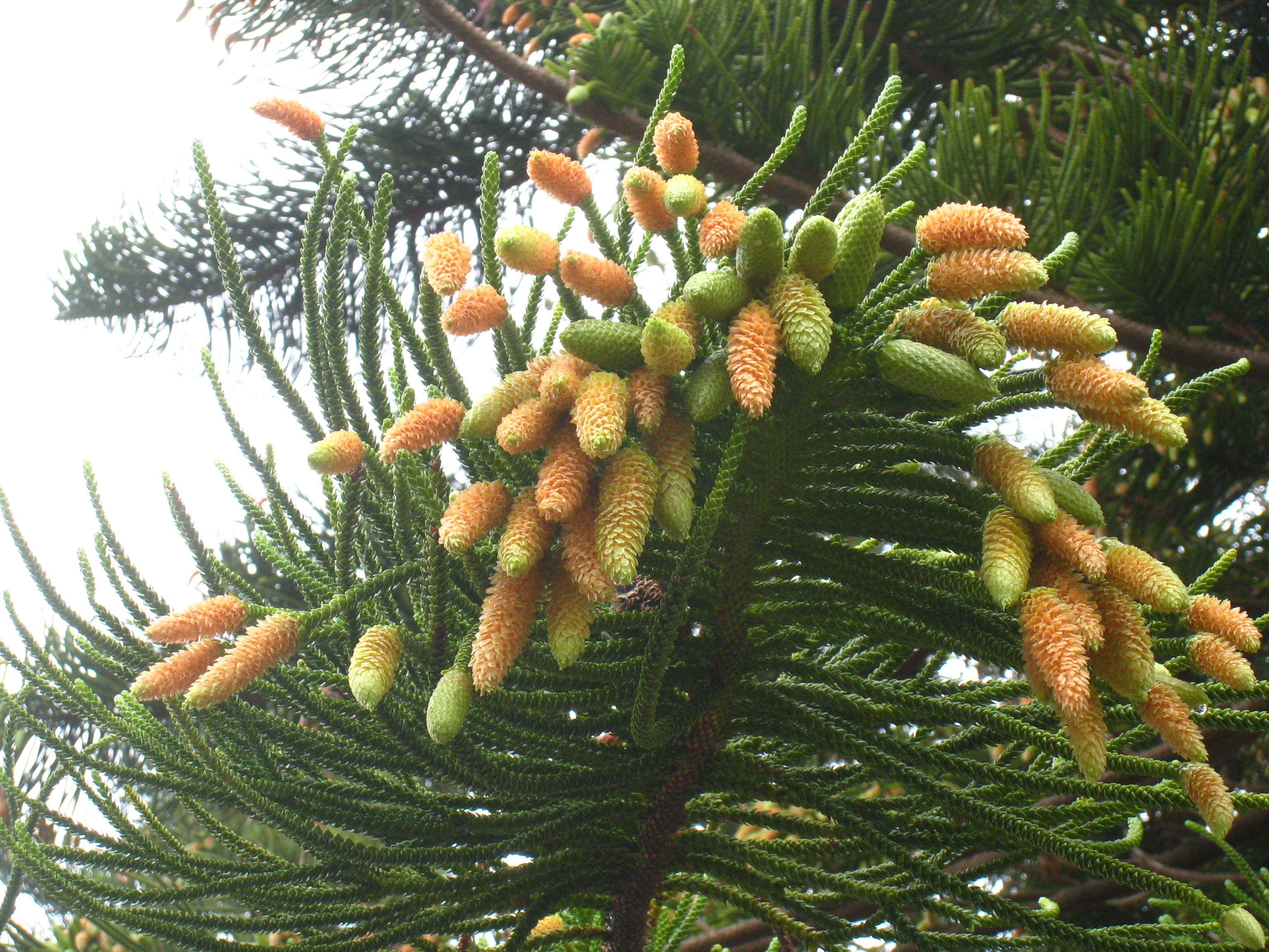 Araucaria columnaris, Cook's Araucaria, cultivated, Whale Beach, New South Wales